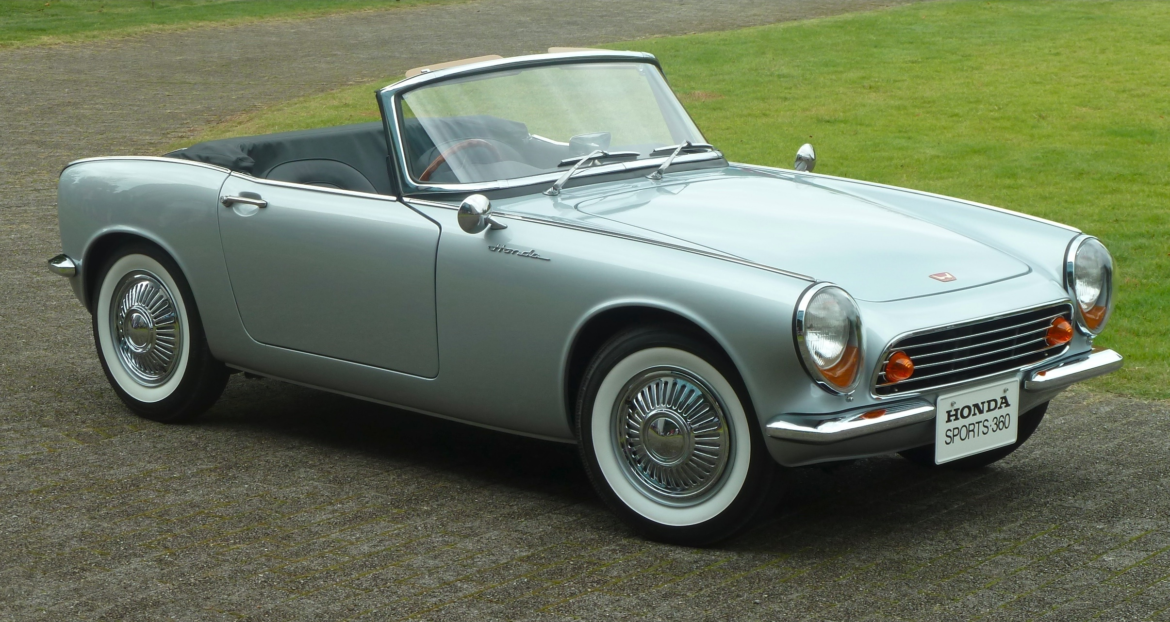 Honda Sports 360 prototype at the Honda Sports 50th Anniversary in Motegi/Japan 2013